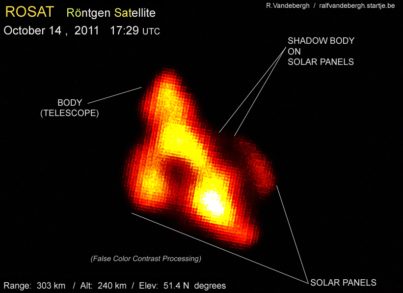 ROSAT satellite captured in its last orbits before reentry